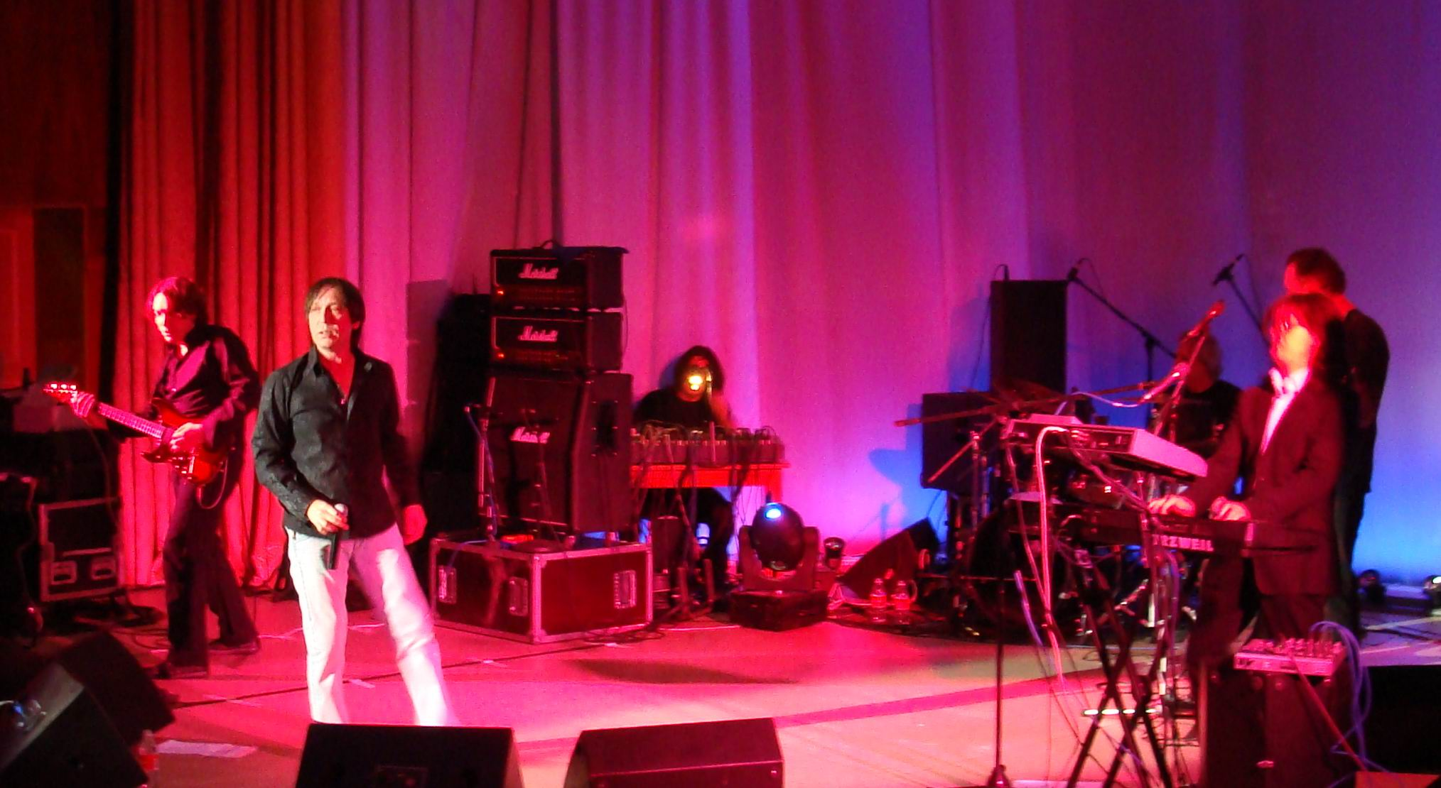 Nikolai Ivanovich Noskov ( born January 12, 1956, Gzhatsk) is a Russian singer and a former vocalist of the hard rock band Gorky Park.